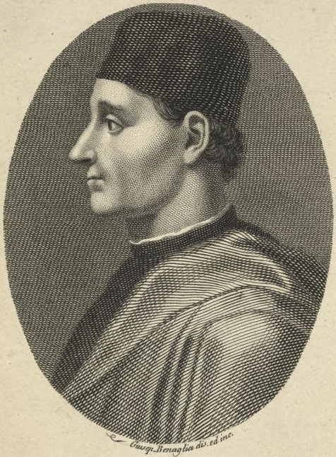 Italian poet Luigi Pulci (1432-1484) by Giuseppe Benaglia (1796-1830).